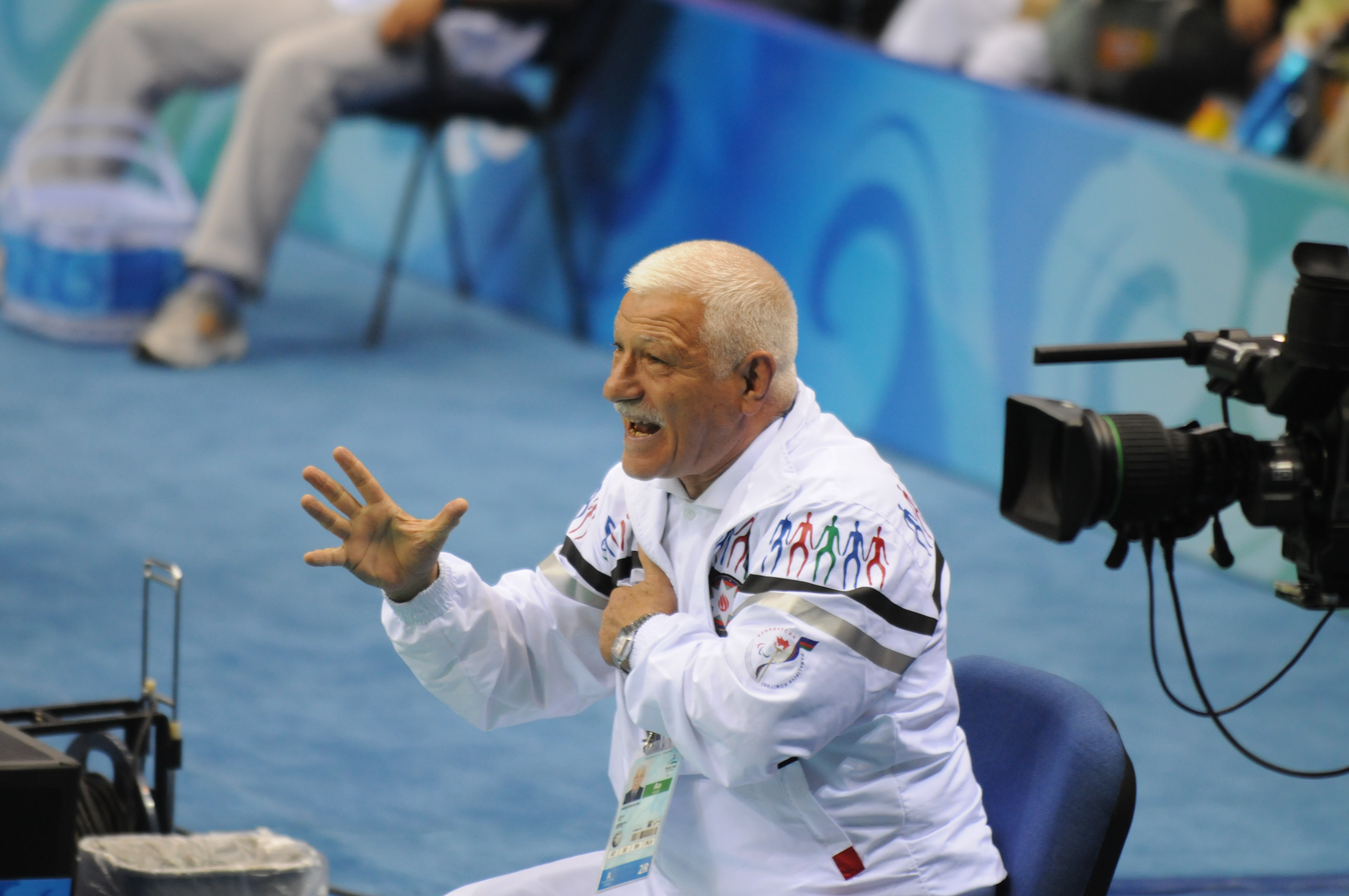 Ahmeddin Rajabli at 2008 Summer Paralympics